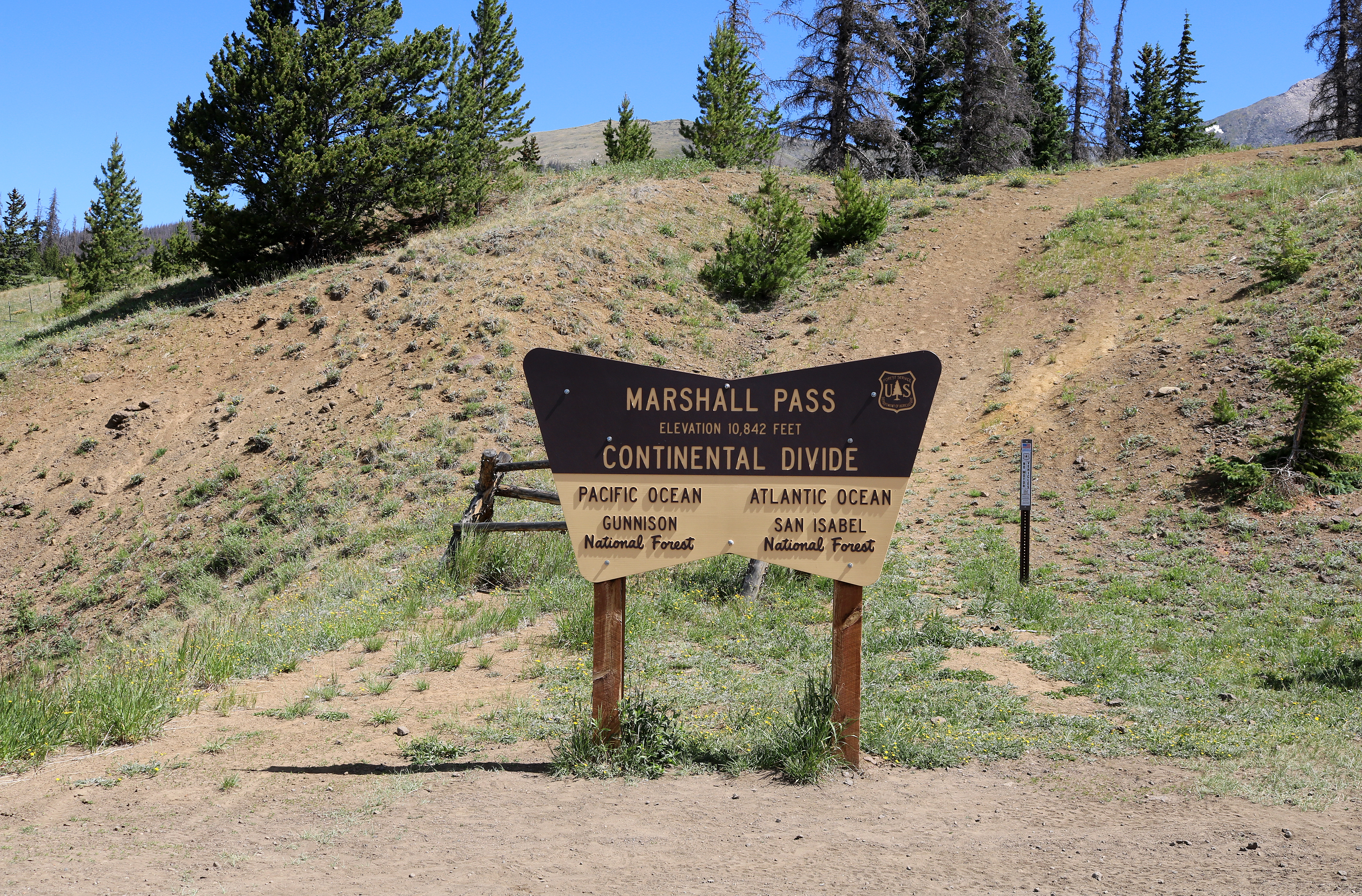 The sign atop Marshall Pass in Saguache County, Colorado.